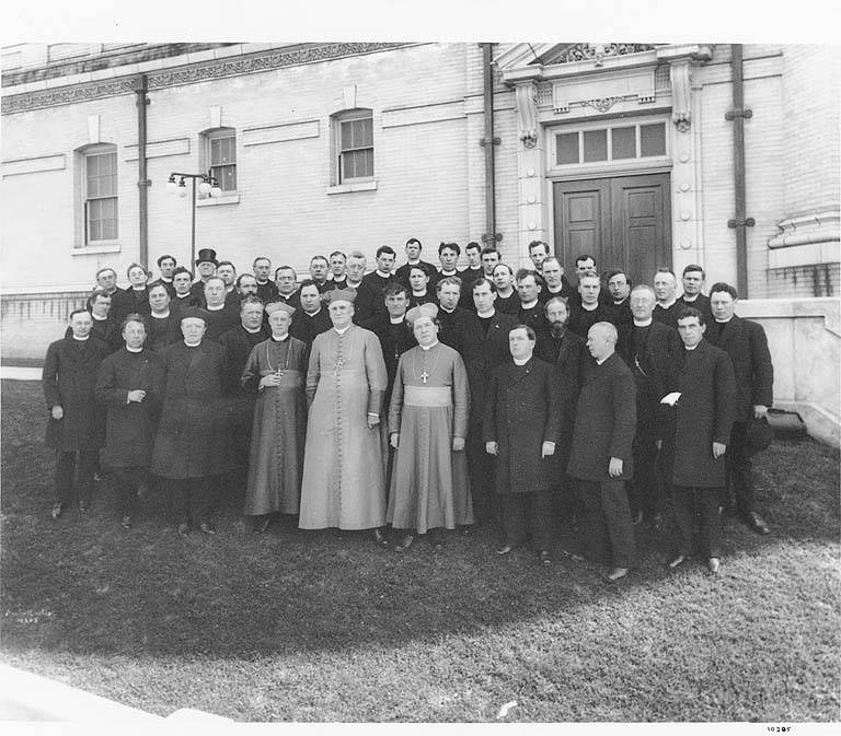 Subjects (LCTGM): Clergy--Washington (State)--Seattle Subjects (LCSH): O'Dea, Edward J.; Portraits, Group--Washington (State)--Seattle This is on the south side of Saint James Cathedral, Seattle.